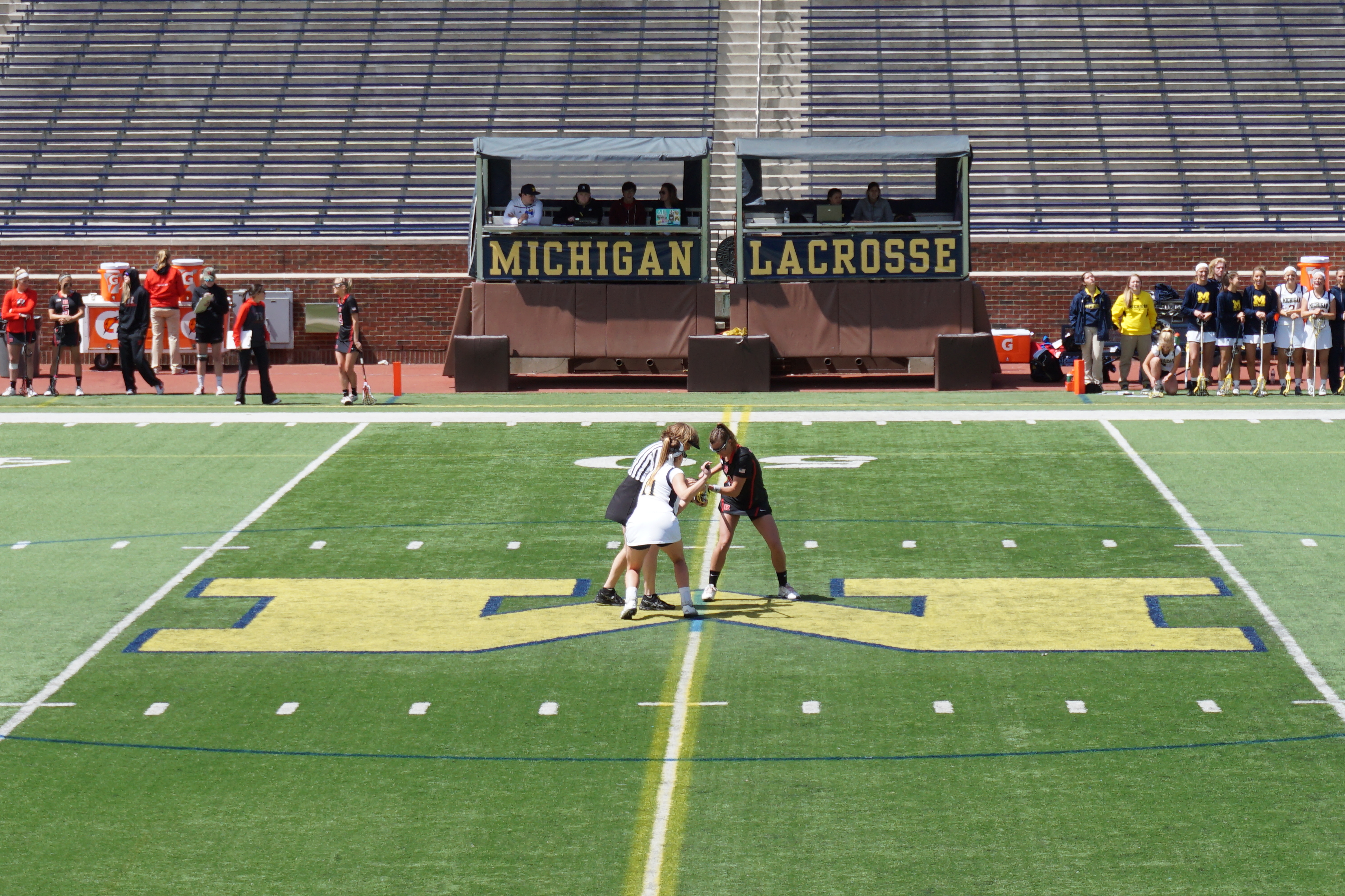 First-half action during the Rutgers Scarlet Knights vs. Michigan Wolverines women's lacrosse game at Michigan Stadium in Ann Arbor, Michigan (United States). Rutgers won 7–6.